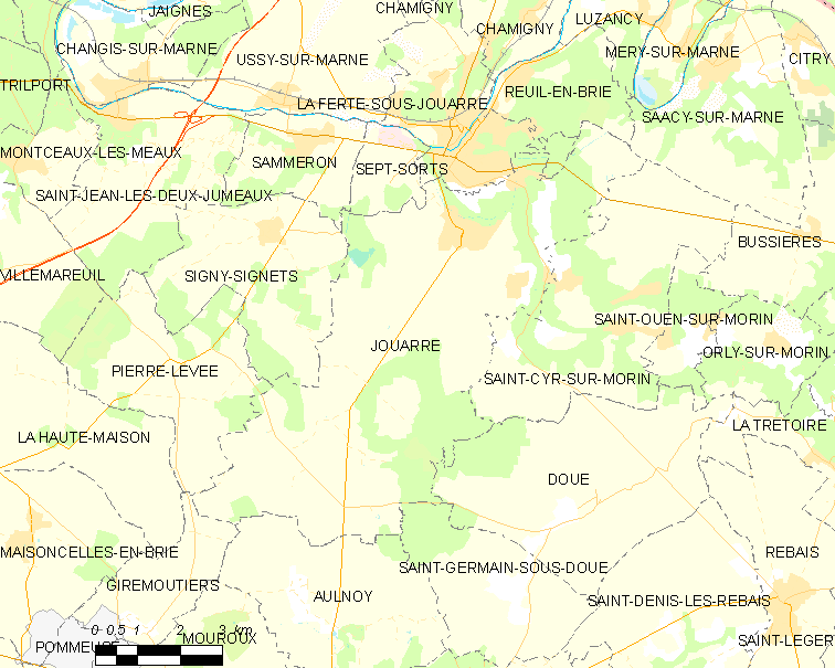 Map of French municipality Jouarre